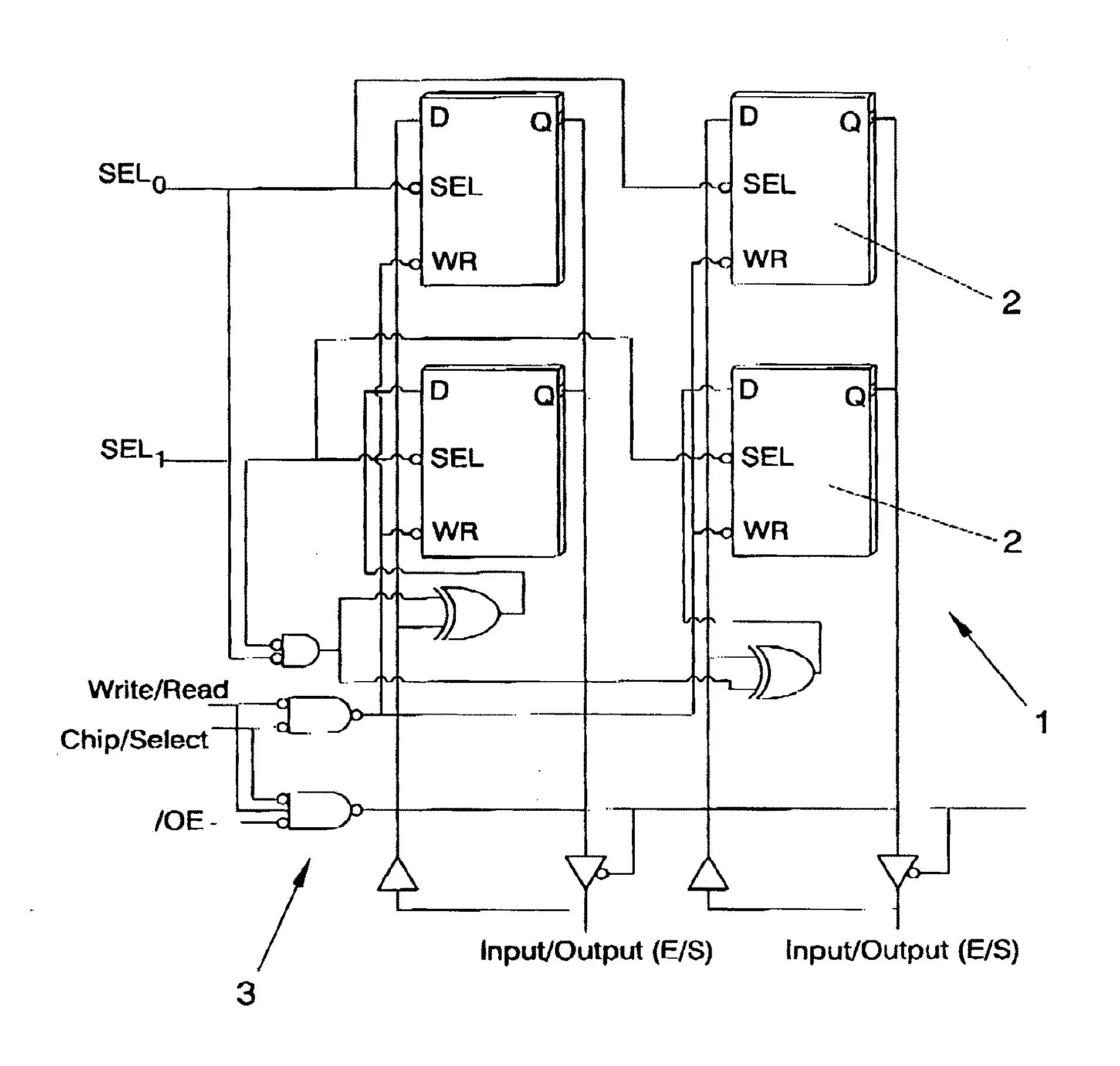 Inchrosil's Unit